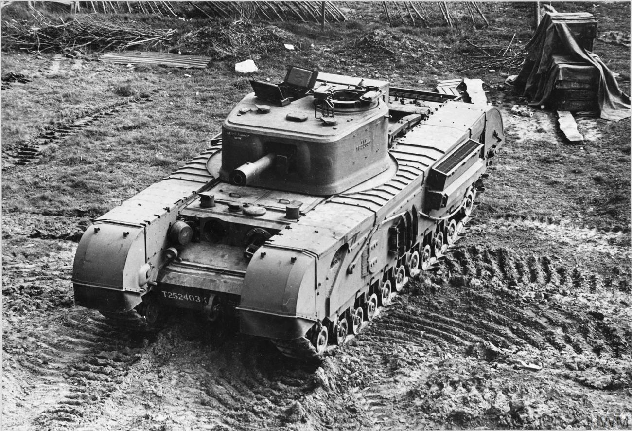 Tanks and Afvs of the British Army 1939-45 Infantry tank Mk IV Churchill VIII (A22)